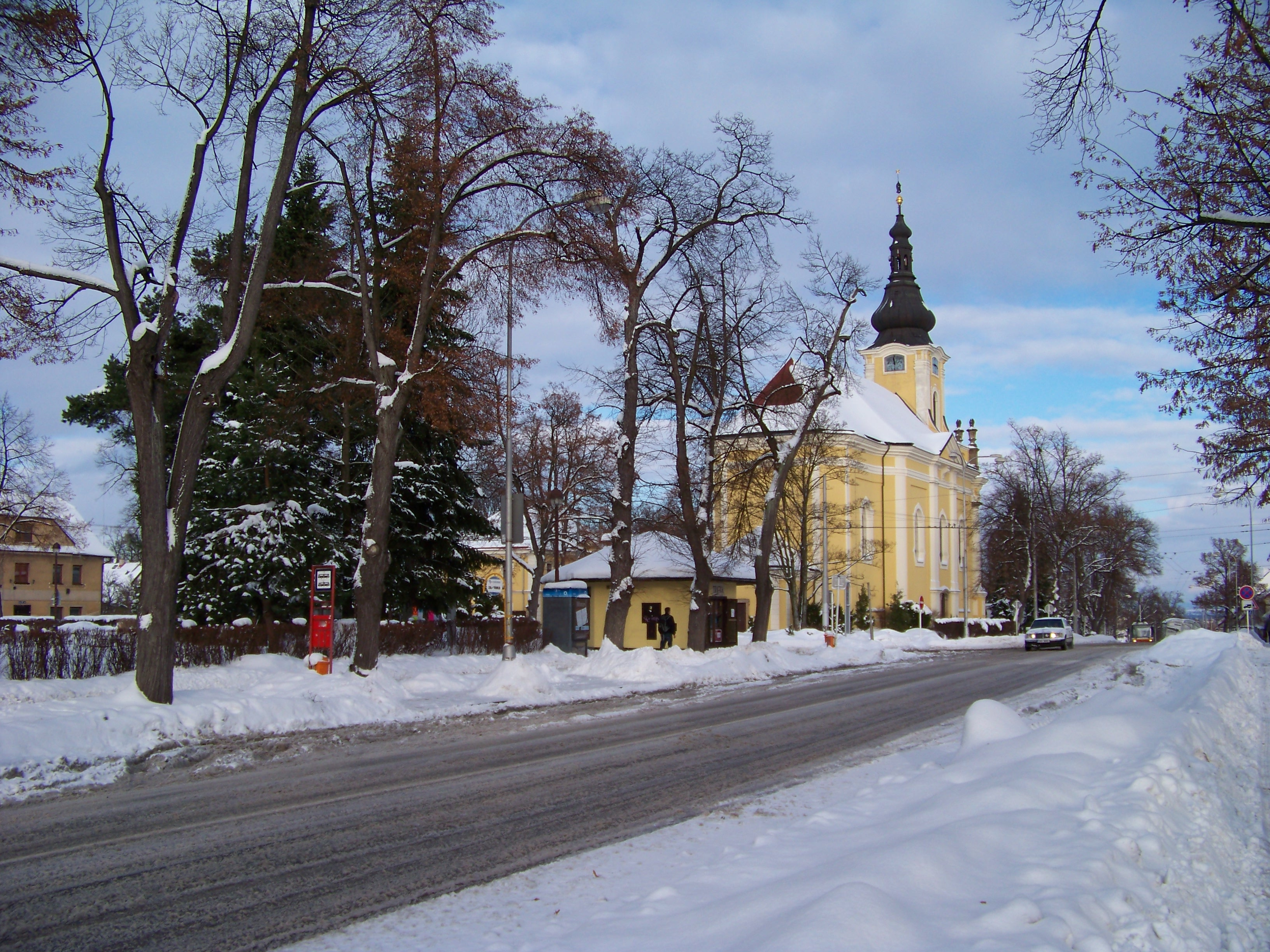 Hradec Králové-Nový Hradec Králové, the Czech Republic. Partyzánská Street and Svatováclavské Square, the church of Saint Anthony the Hermit. - Google Maps - Google Earth